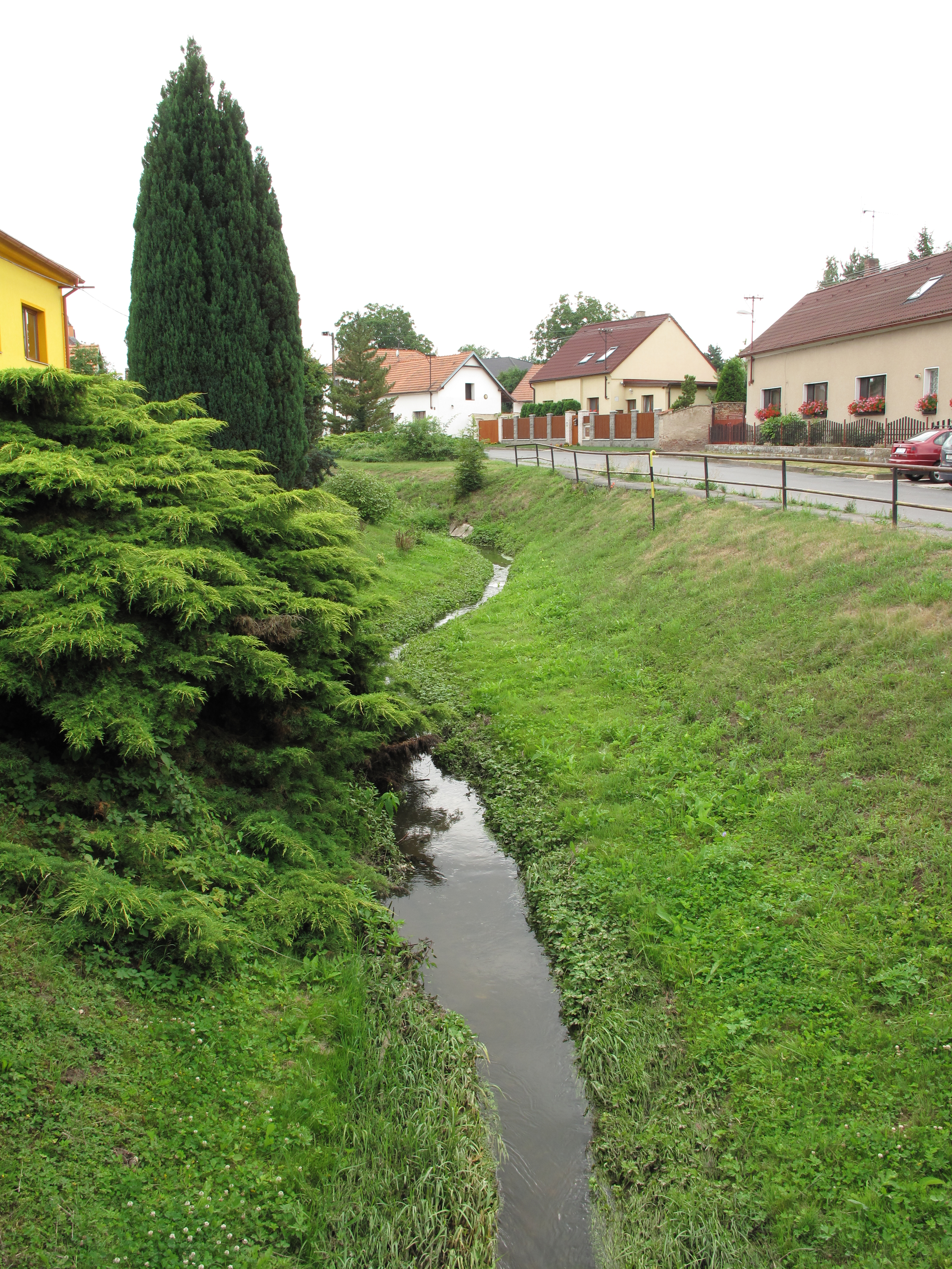 Jalový Stream in Přistoupim village, Kolín District, Czech Republic.